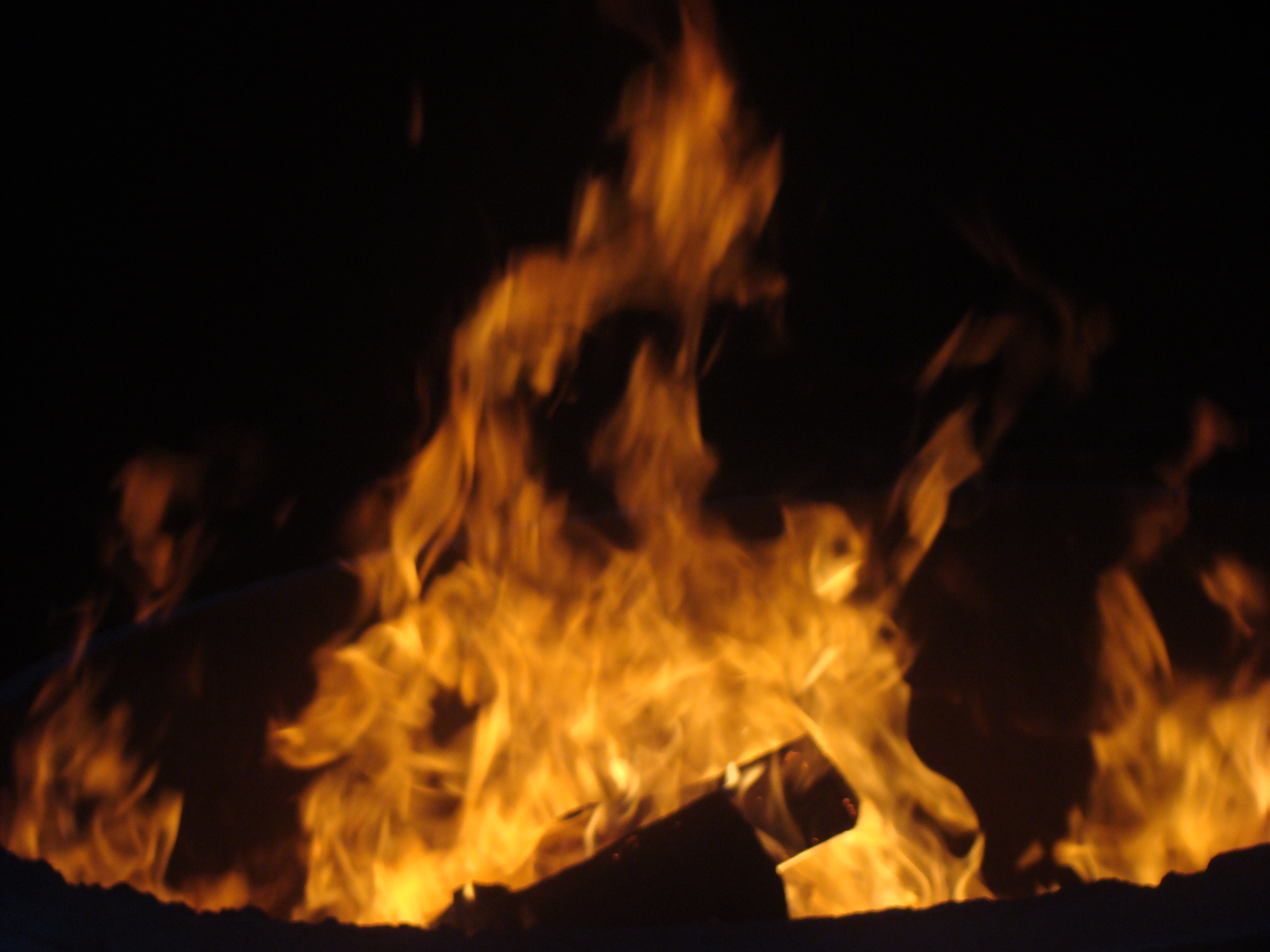 Fire in the Ranua Zoo, in Ranua, Finland.